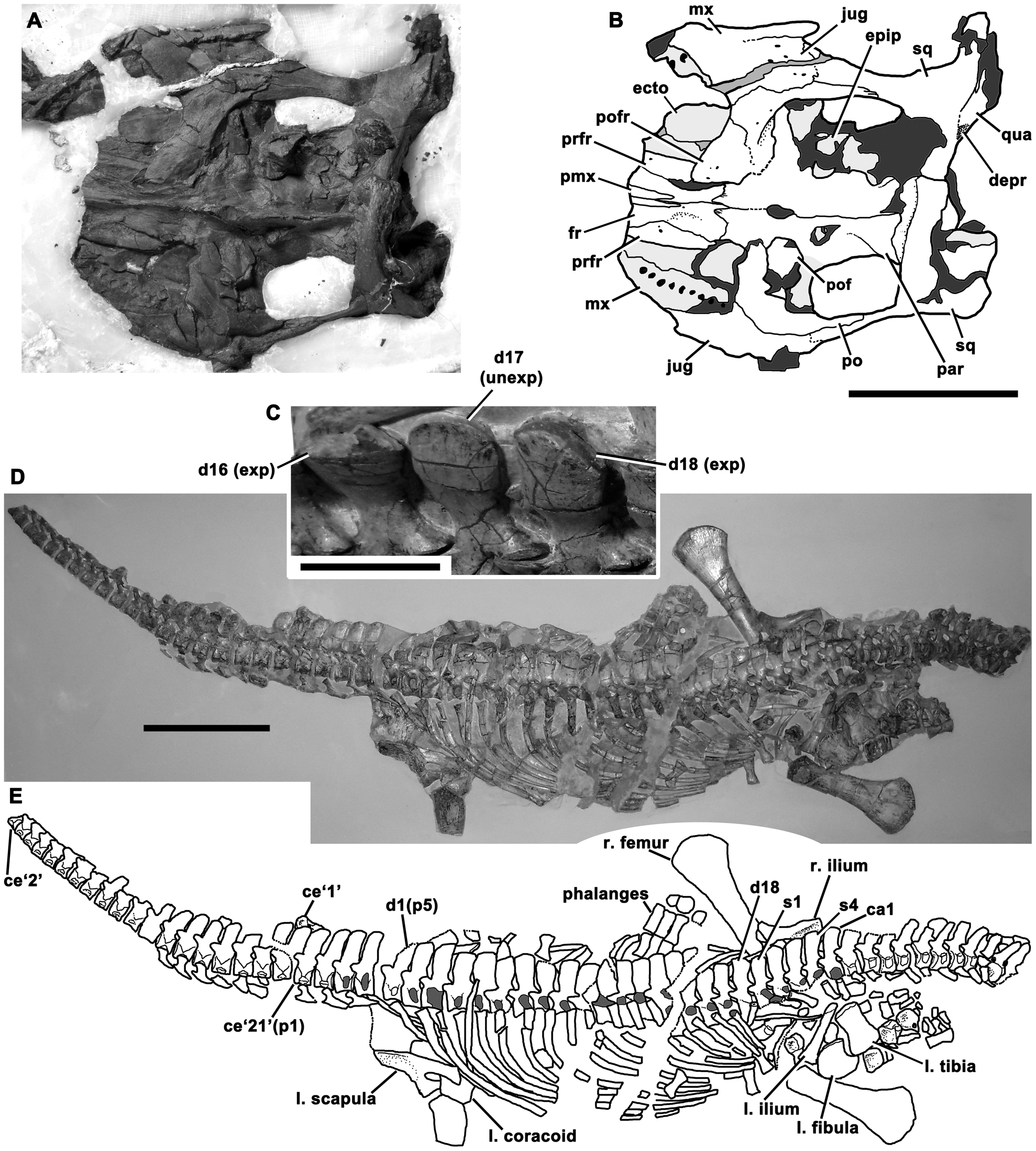 A–B, skull in dorsal view; C–E, postcranial skeleton; in left dorsolateral (C) and left lateral (D–E) views. In line drawings (B, E) dark grey tone indicates damage and light grey tone indicates the palate. Abbreviations: ca, caudal vertebra [number following indicates order in preserved series]; ce, cervical vertebra; d, dorsal vertebra; depr, depression; ecto, ectopterygoid; epip, epipterygoid; exp, expanded neural spine apex; fr, frontal; jug, jugal; l., left [followed by name of element]; mx, maxilla; p, ‘pectoral’ vertebra; par, parietal; pmx, premaxilla; po, postorbital; pofr, postfrontal; prfr, prefrontal; qua, quadrate; r., right [followed by name of element]; s, sacral vertebra; sq, squamosal; unexp, unexpanded neural spine apex. Scale bars equal 50 mm (A–B), 20 mm (C), and 200 mm (D–E).